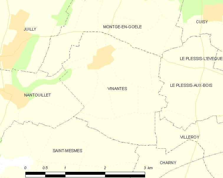 Map of French municipality Vinantes